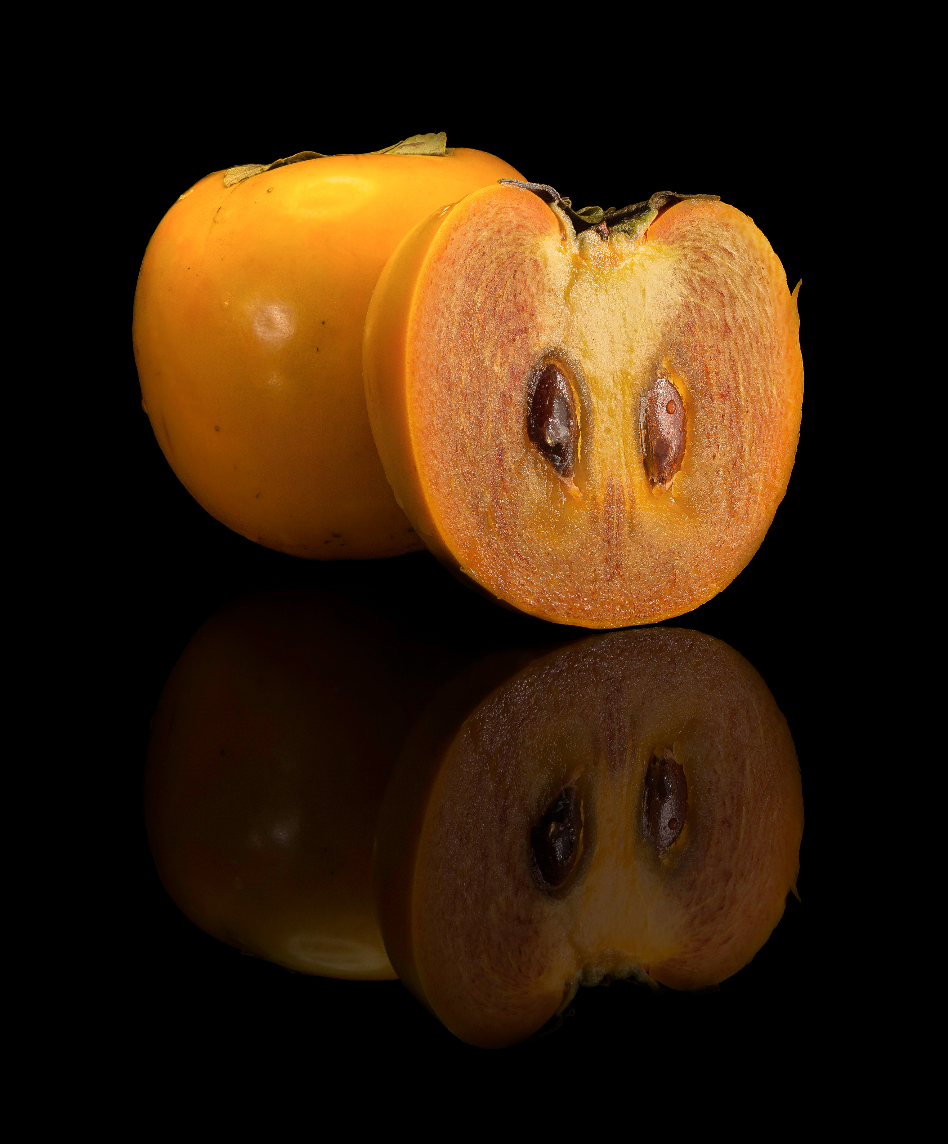 Oriental persimmon (Diospyros kaki) with dark background.